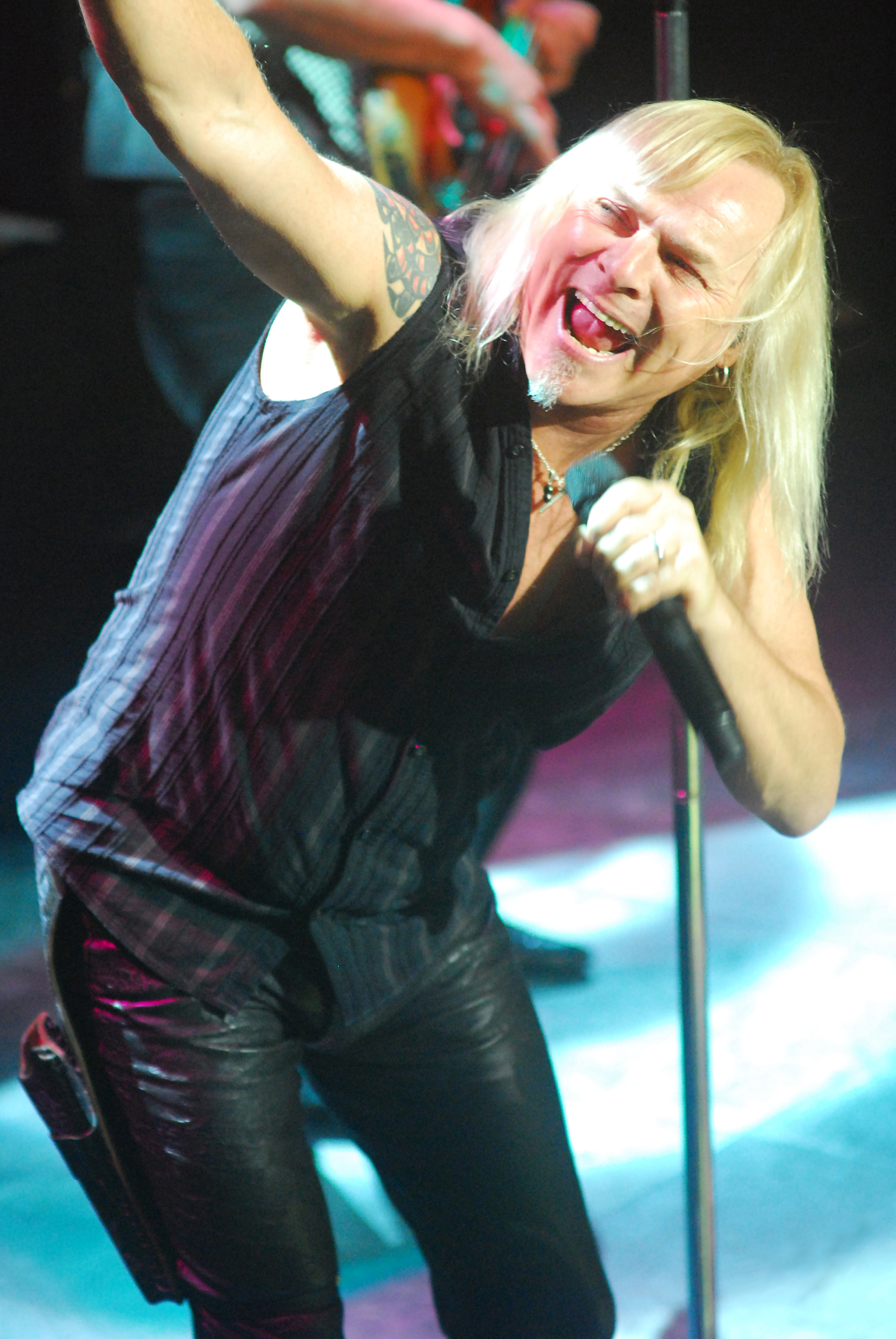 Bernie Shaw of Uriah Heep, British rock band from the 70s, still active after 40 years.